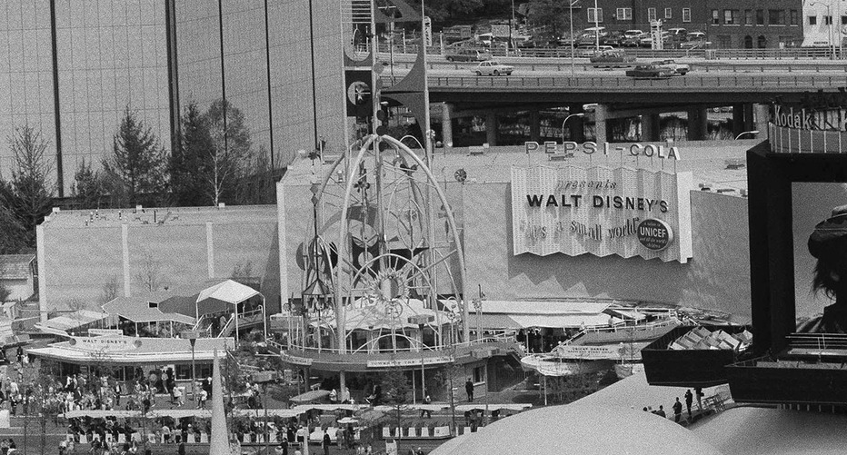 PEPSI-COLA presents WALT DISNEY'S "it's a small world" a salute to UNICEF and all the world's children attraction at the 1964-5 New York World's Fair